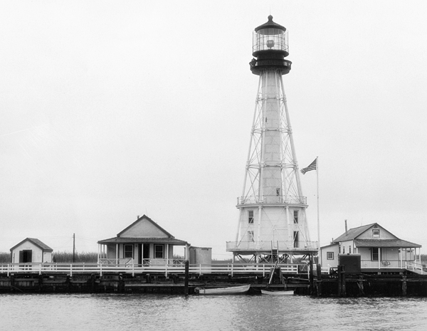 A 1945 photograph of the South Pass Light, Port Eads, Louisiana (USA), shot for the U.S. Coast Guard.